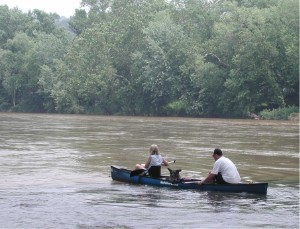 Canoeing on the Shenandoah River.